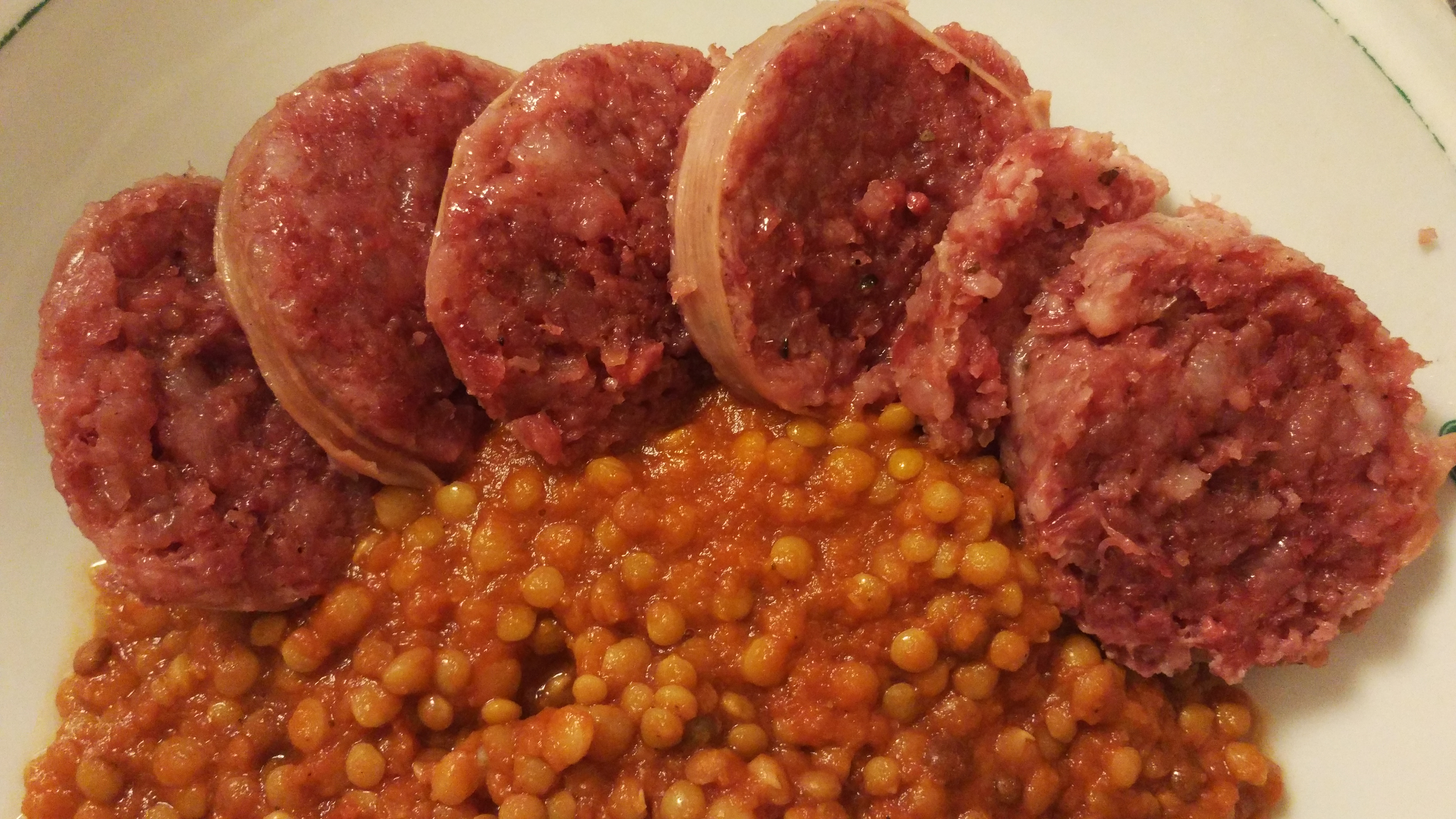 Cotechino, a popular Italian holiday food, served with lentils